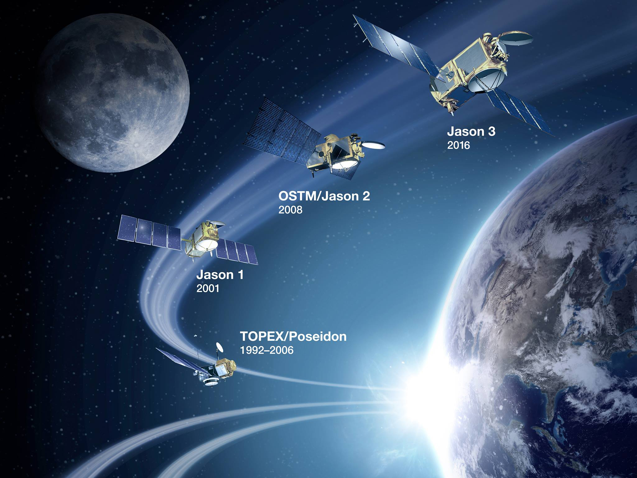 A history of satellite altimetry missions, including TOPEX/Poseidon (1992), Jason-1 (2001), and Jason-2 (2008). An international partnership between CNES, EUMETSAT, NASA, and NOAA, Jason-3 is scheduled to launch in July 2015. Credit: NASA/JPL